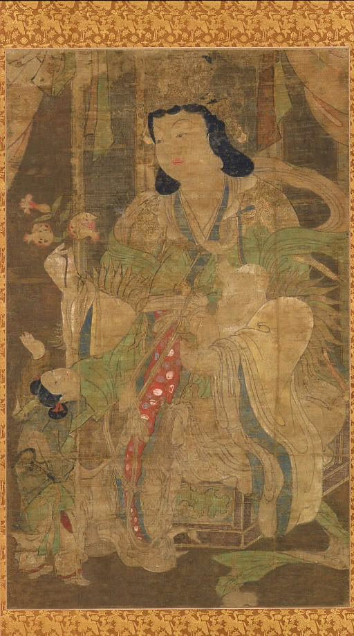 Kariteimo (絹本著色訶梨帝母像, kenpon choshoku kariteimozō). Hanging scroll, 124.3 cm x 77.9 cm. Color on silk. Located at Daigo-ji, Kyoto, Japan. The scroll has been designated as National Treasure of Japan in the category paintings.